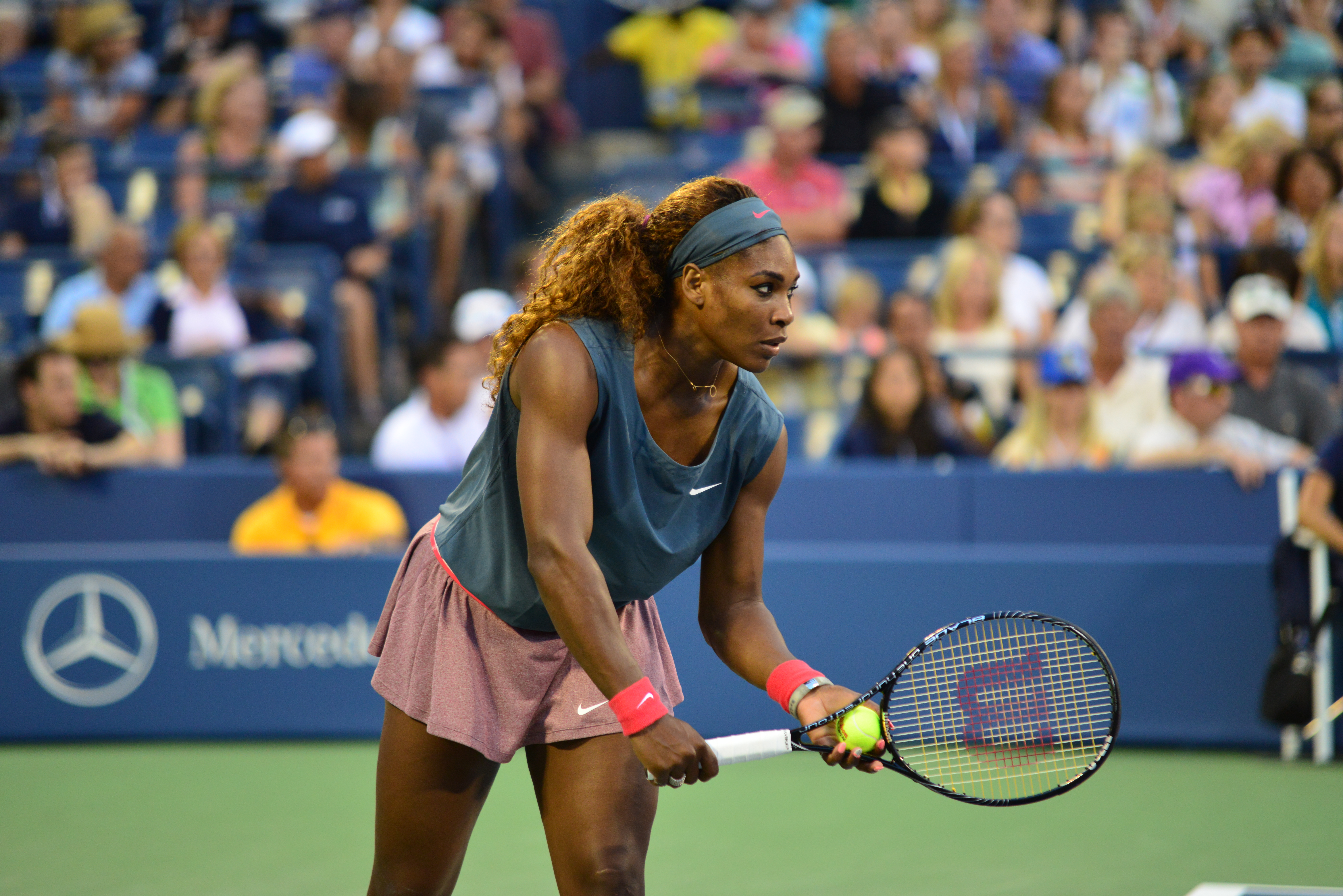 1st round doubles action from the Women's draw at the 2013 US Open. Serena and Venus Williams defeated Silvia Soler-Espinosa and Carla Suarez Navarro; 6-7(5), 6-0, 6-3